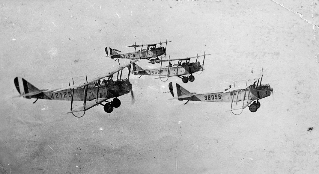 Formation of 4 Curtiss JN-4s flying from Love Field, Texas